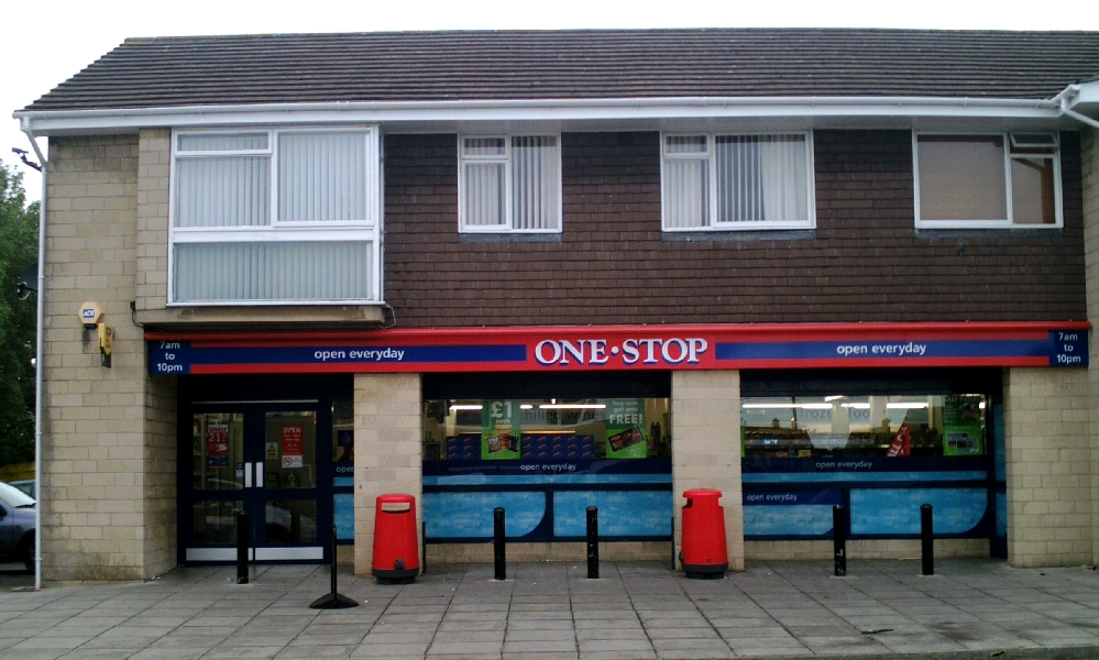 Tesco One Stop store in Trowbridge, Wiltshire